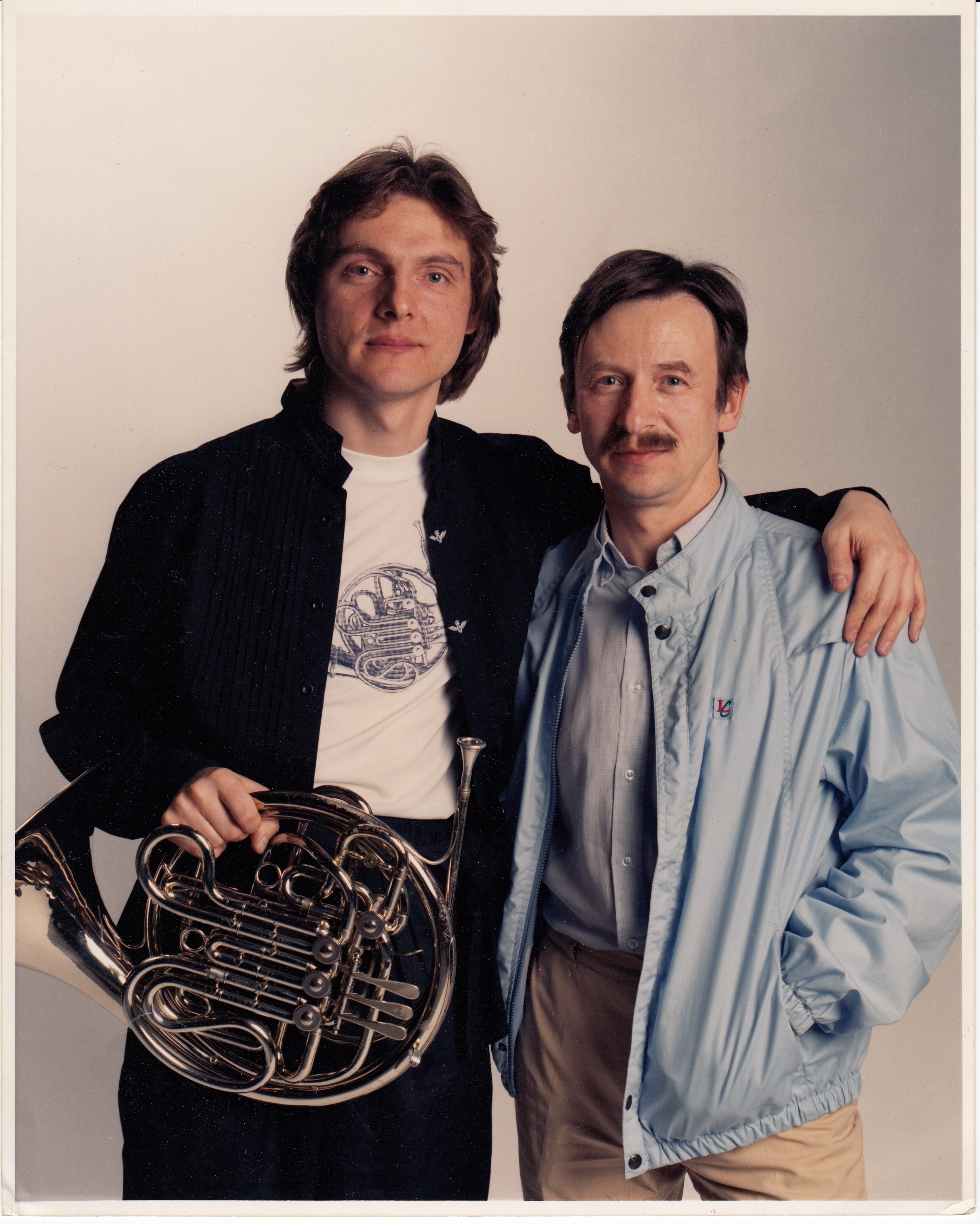 С М. Каретниковым